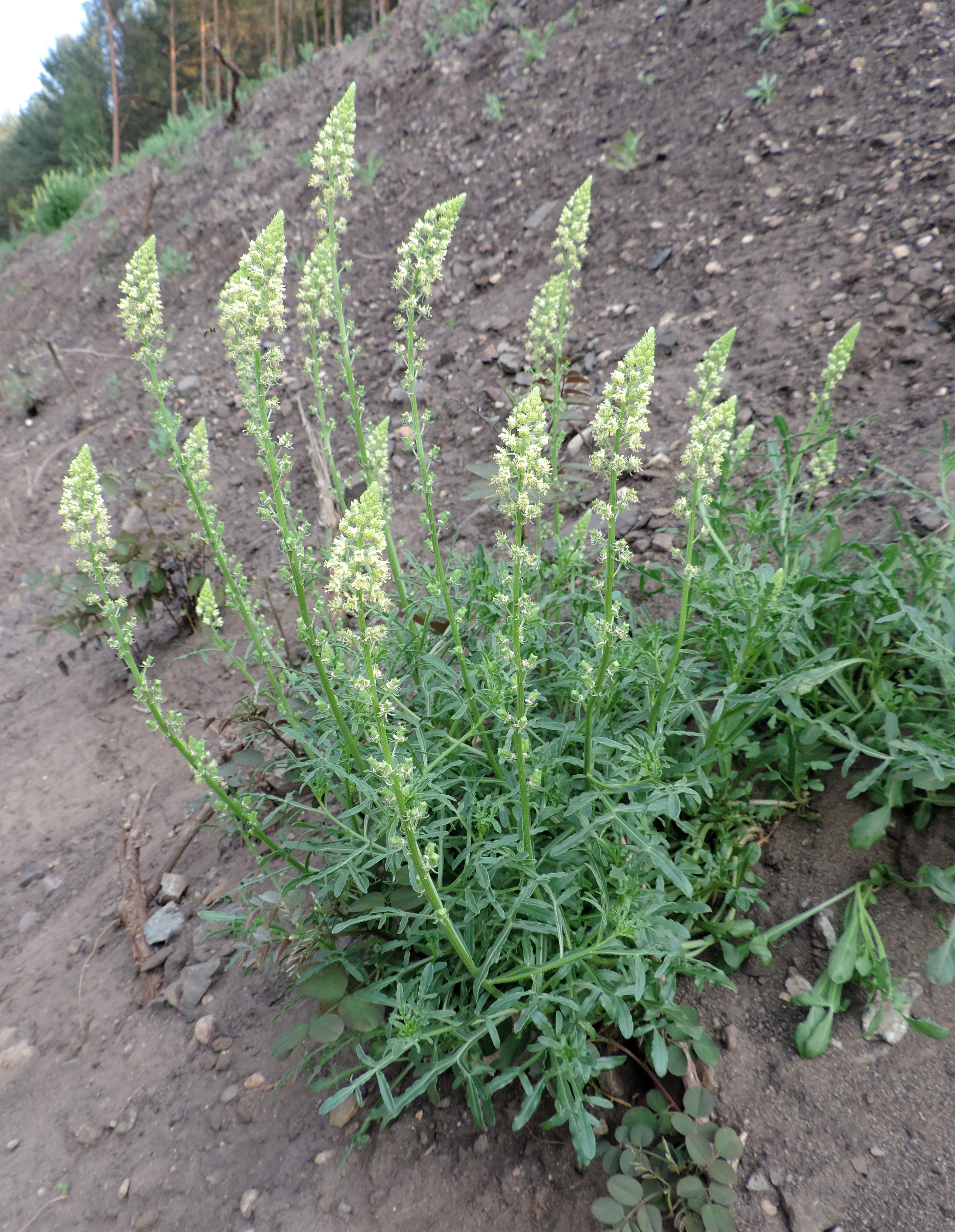 Reseda lutea. Vicinity of Glogow, SW Poland